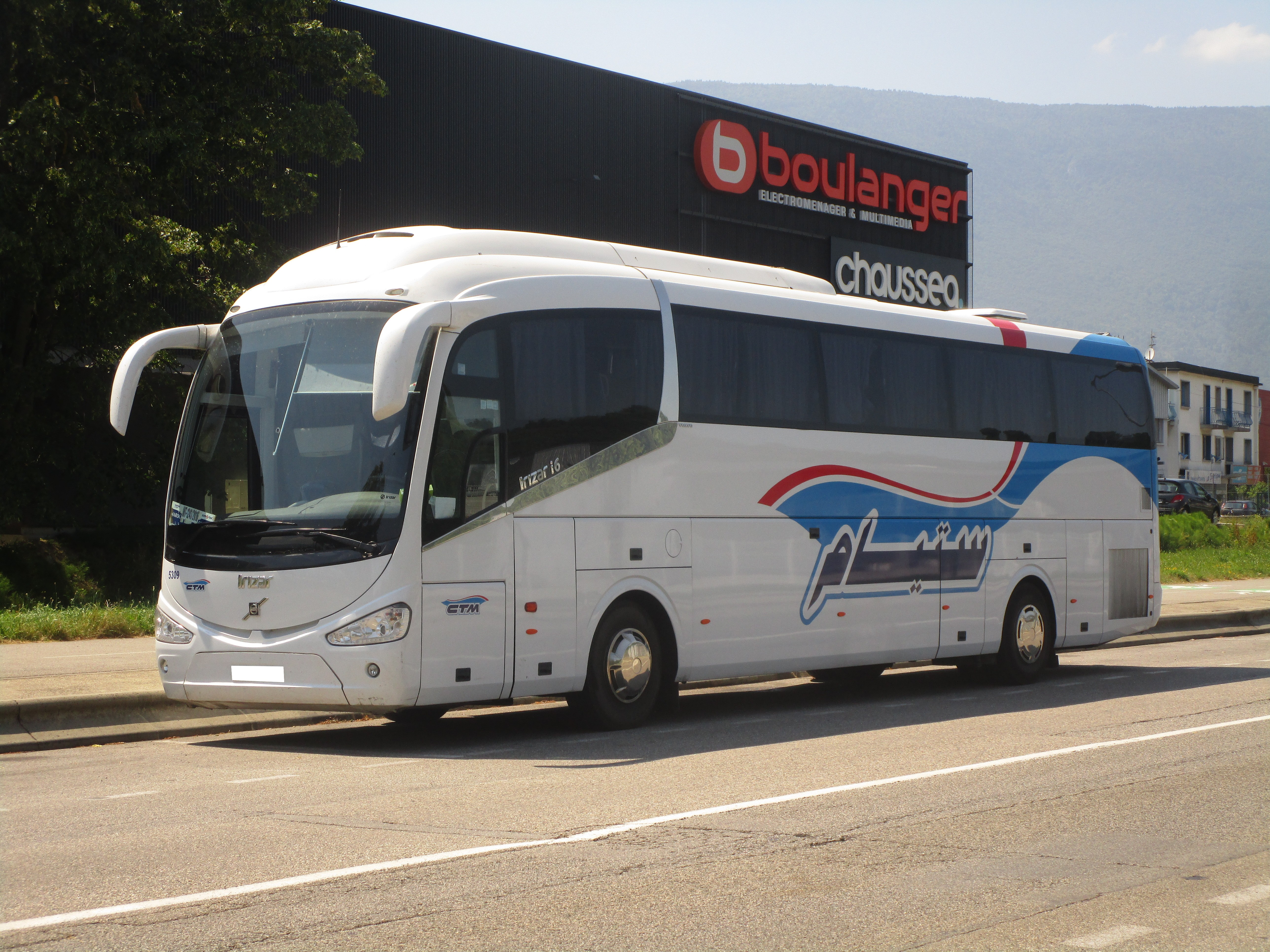 An Irizar i6 (n°5309 of the CTM) in Avenue des Landiers (Chambéry, France) on June 19, 2017.